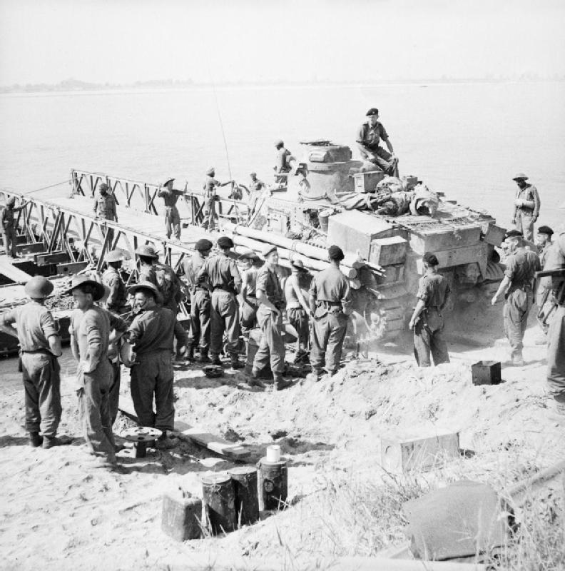 A Lee tank being loaded onto a pontoon ferry by men of the 2nd Division before crossing the Irrawaddy river at Ngazun, Burma, 28 February 1945. A Lee tank being loaded onto a pontoon ferry by men of the 2nd Division before crossing the Irrawaddy river at Ngazun, 28 February 1945.